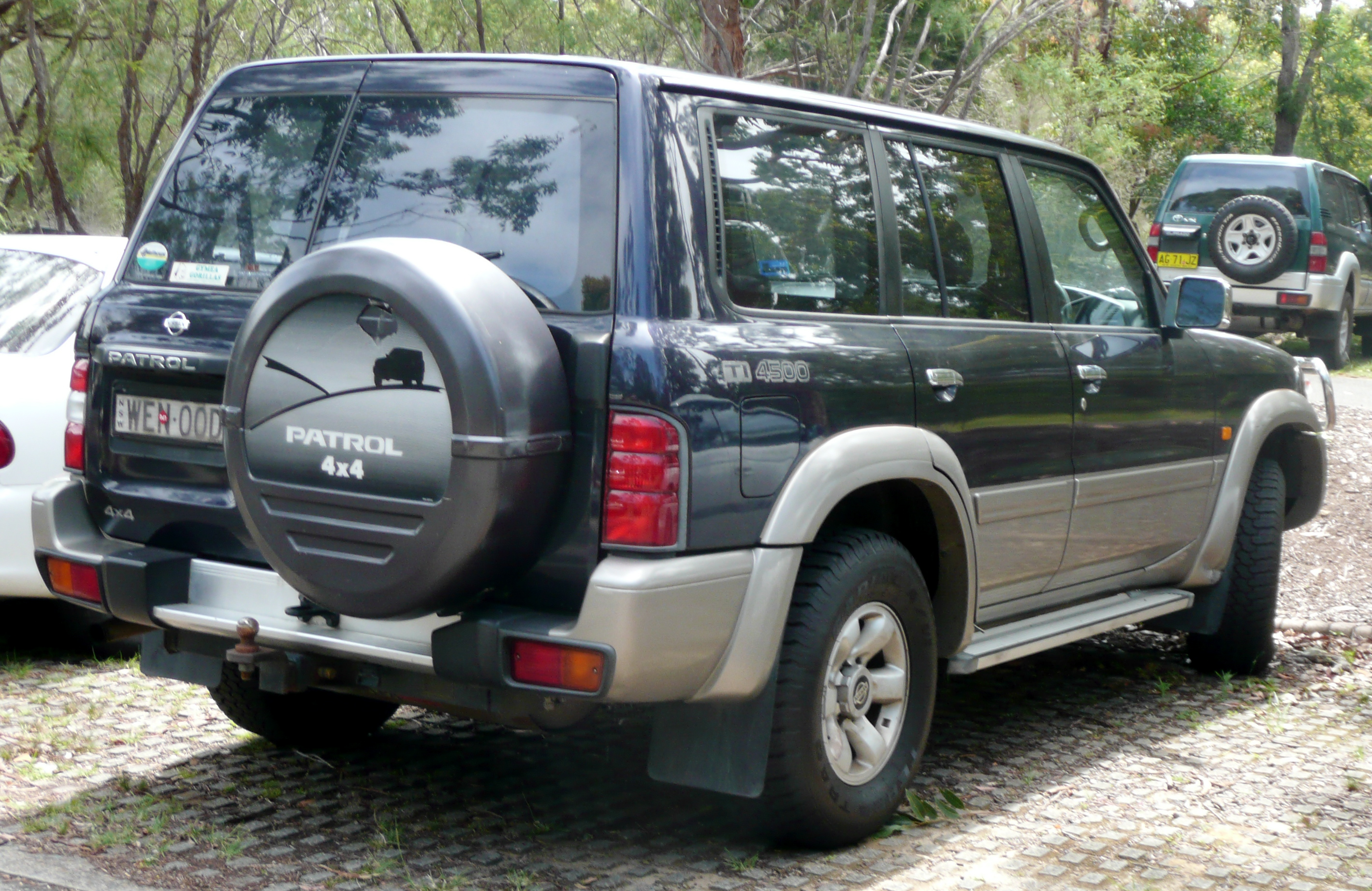 1997–2000 Nissan Patrol (GU) Ti 5-door wagon. Photographed in Audley, New South Wales, Australia.